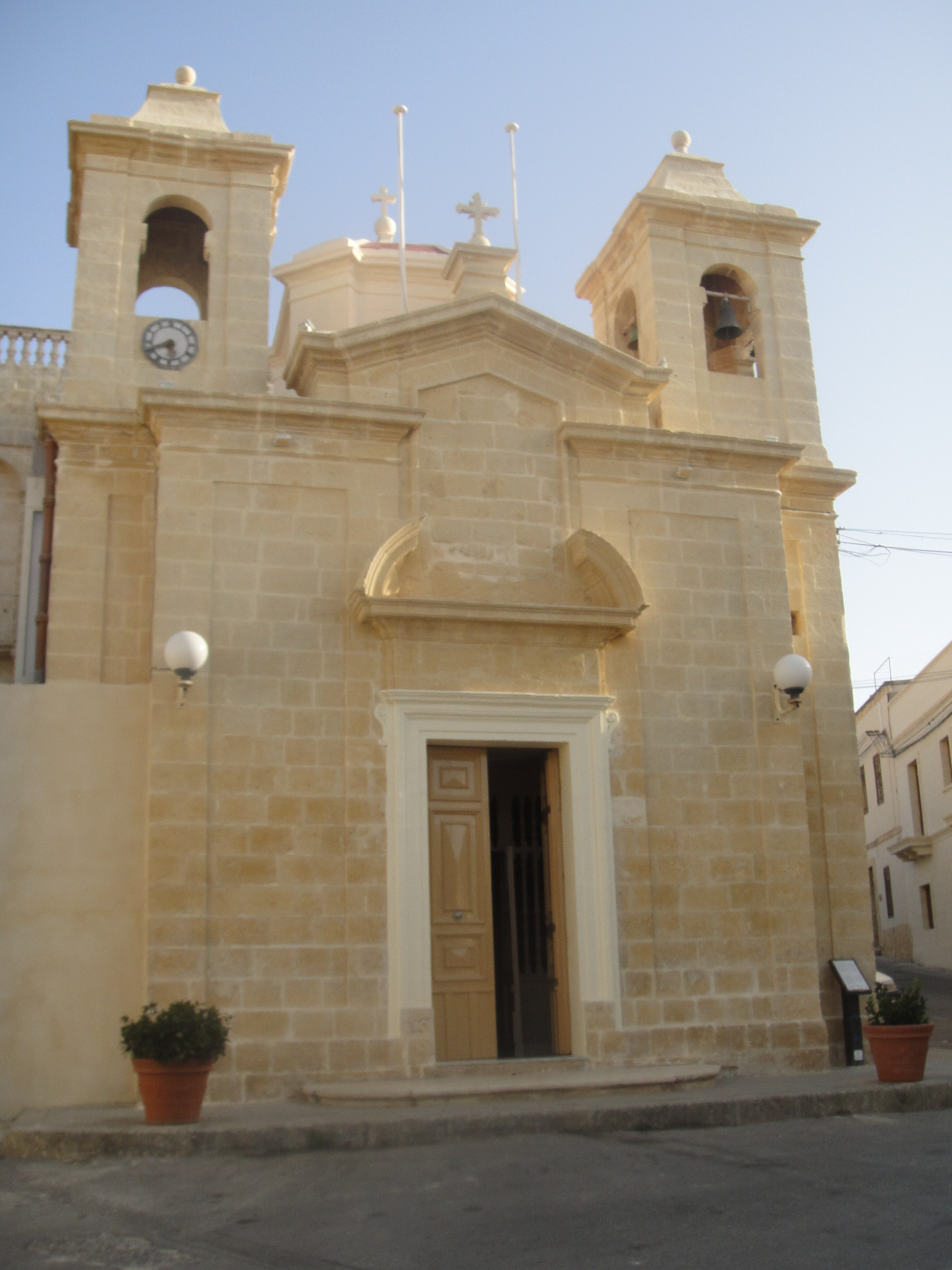 The church of the Immaculate Conception in Nigret Żurrieq.